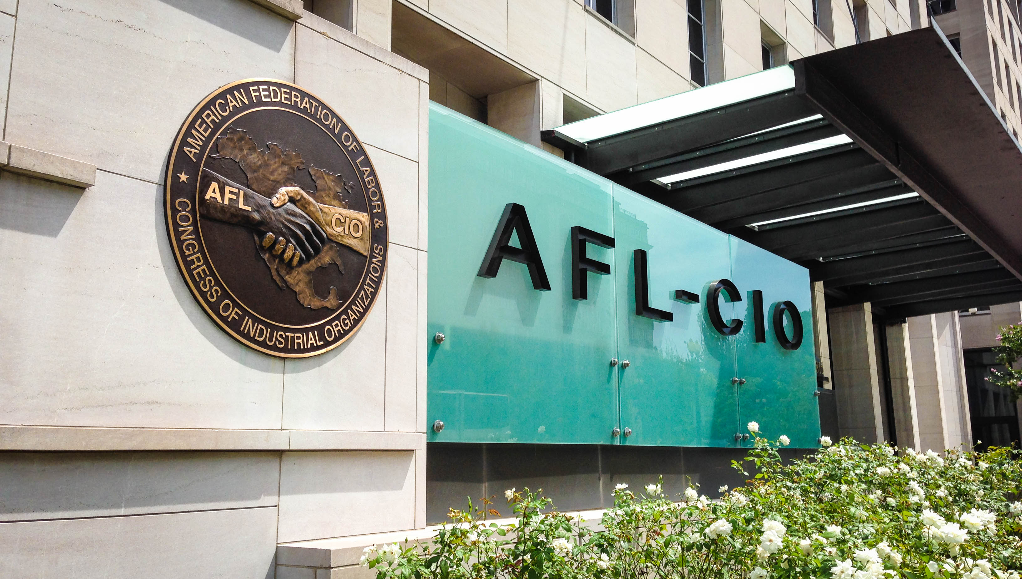 Large sign with AFL-CIO seal and name outside the organization's headquarters in Washington, D.C. Taken by Matt Popovich and released under a CC-BY-3.0 license.